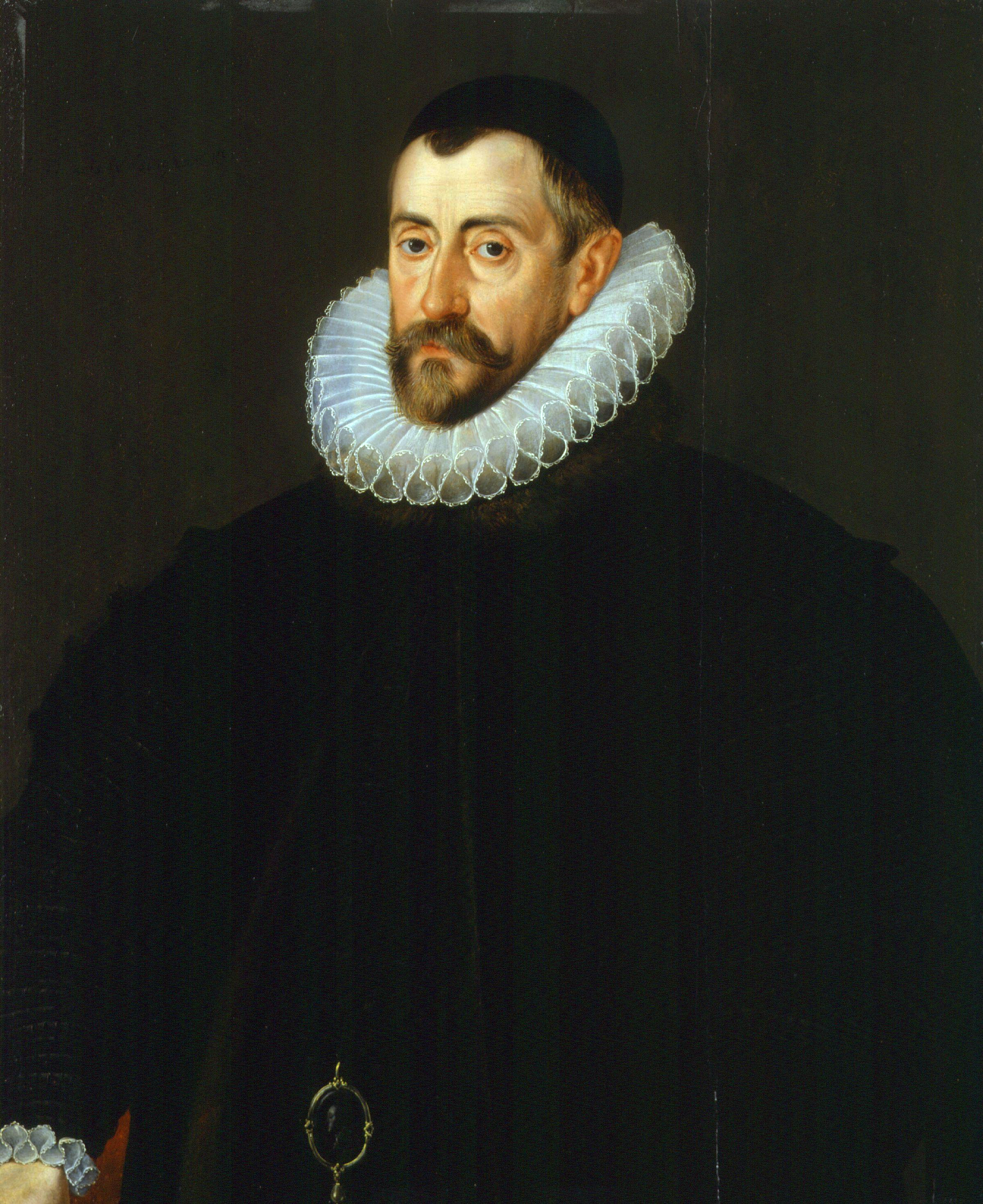 Depiction of Sir Francis Walsingham, principal secretary to Elizabeth I, Queen of England. More commonly known as her spymaster. He uncovered the plots of Francis Throckmorton and Anthony Babington. The discovery of the latter led to the execution of Mary, Queen of Scots. Walsingham died in 1590.